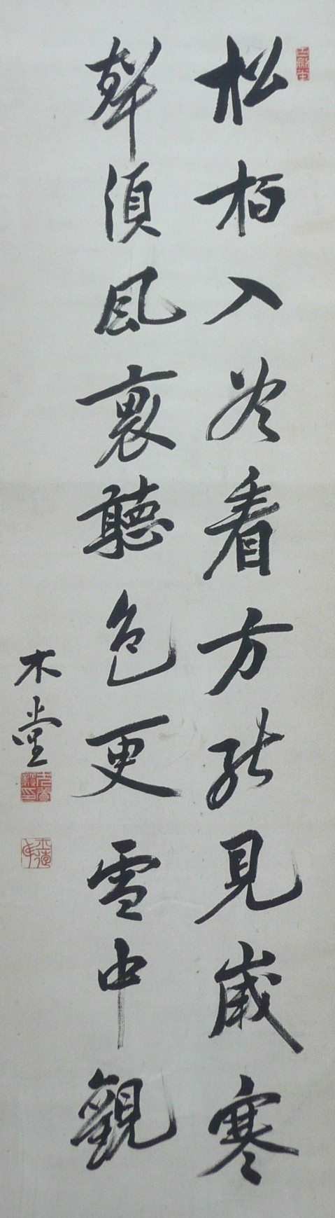 Tsuyosi_Inukai's_handwriting. A poem in classical Chinese.